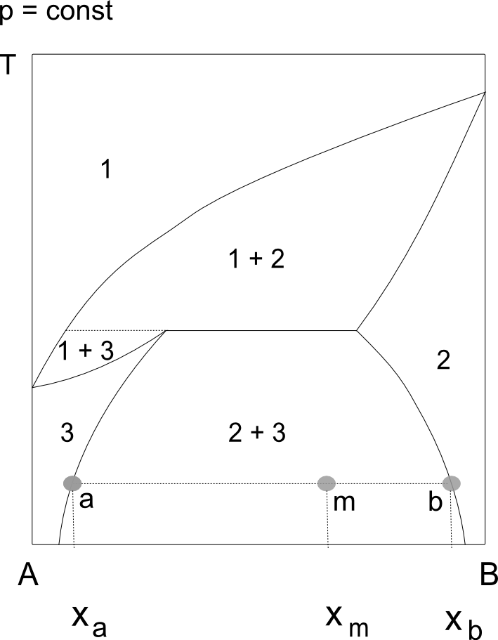 Phase diagrams/ liquid-liquid equilibrium 2